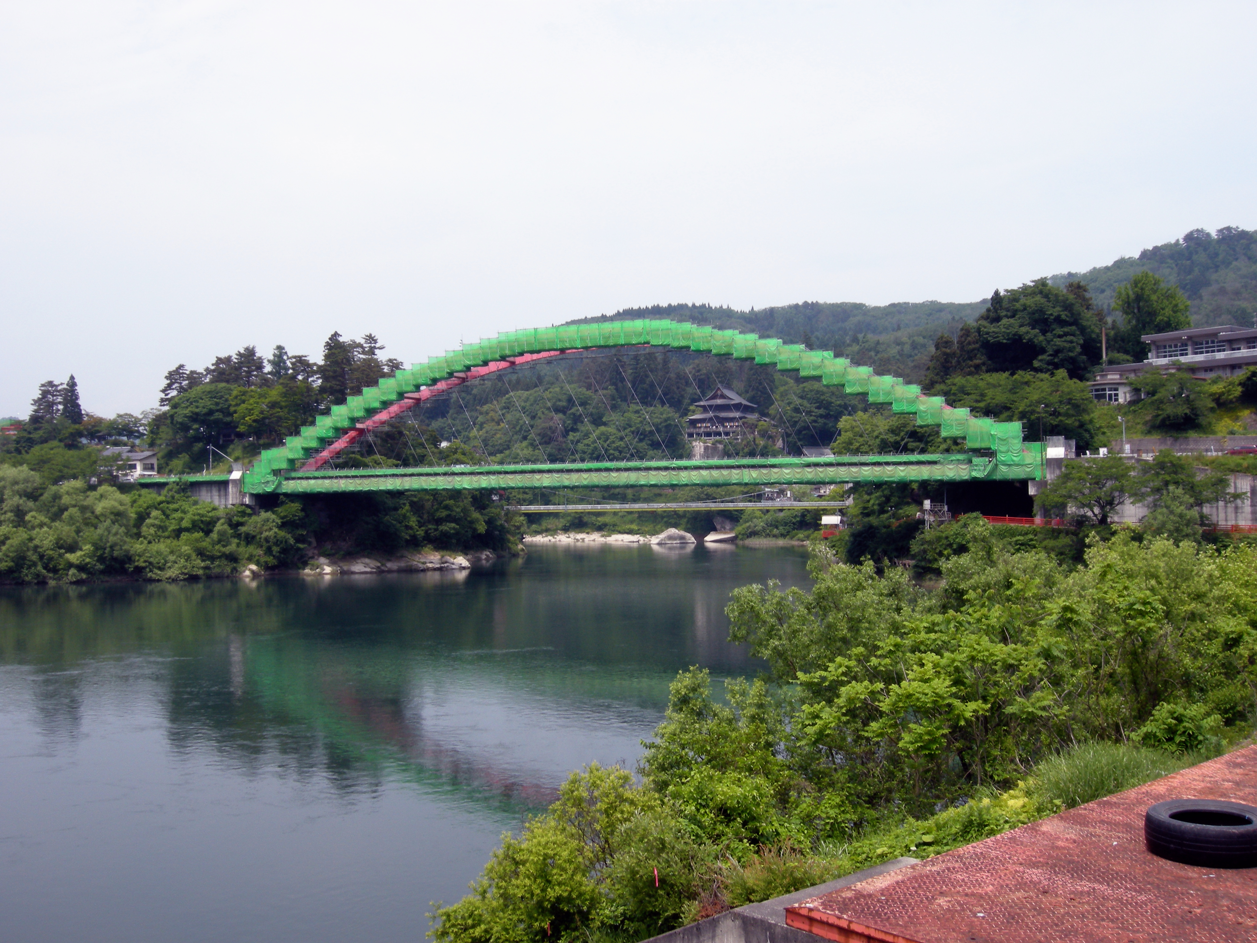 Bridge over the Tadami River